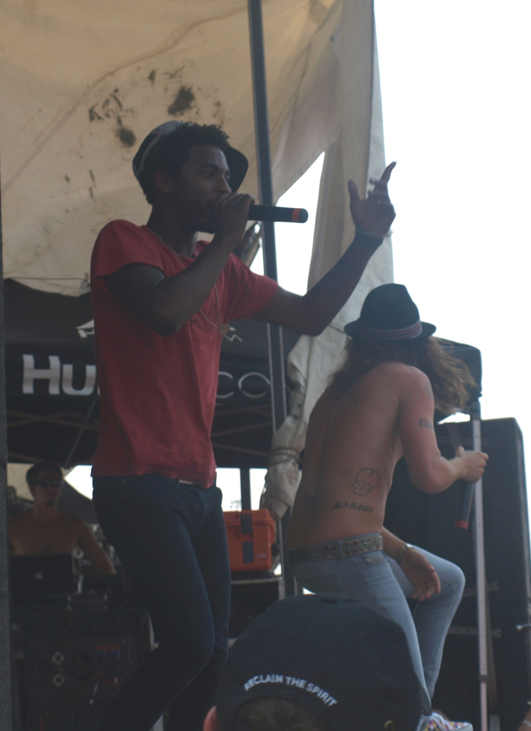 Englishtown, New Jersey. July 28, 2008.